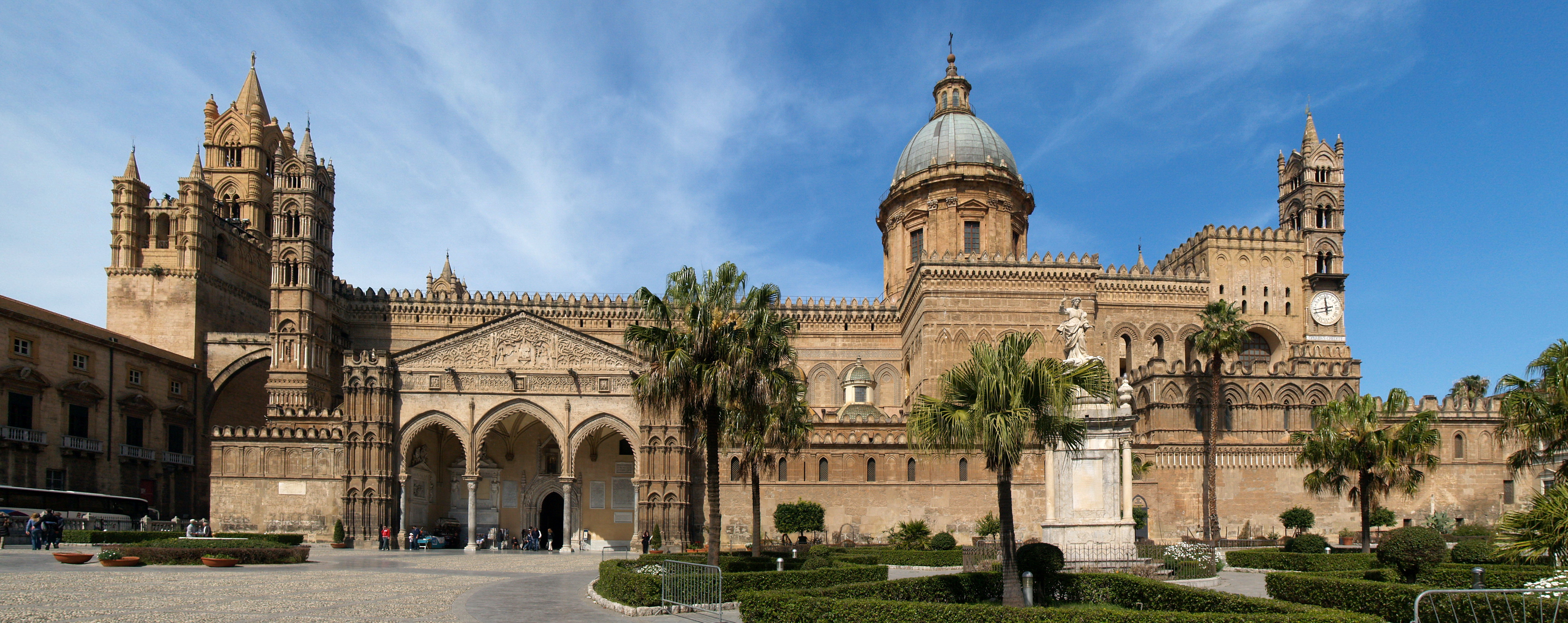 Panoramic view of Palermo Cathedral, Sicily.